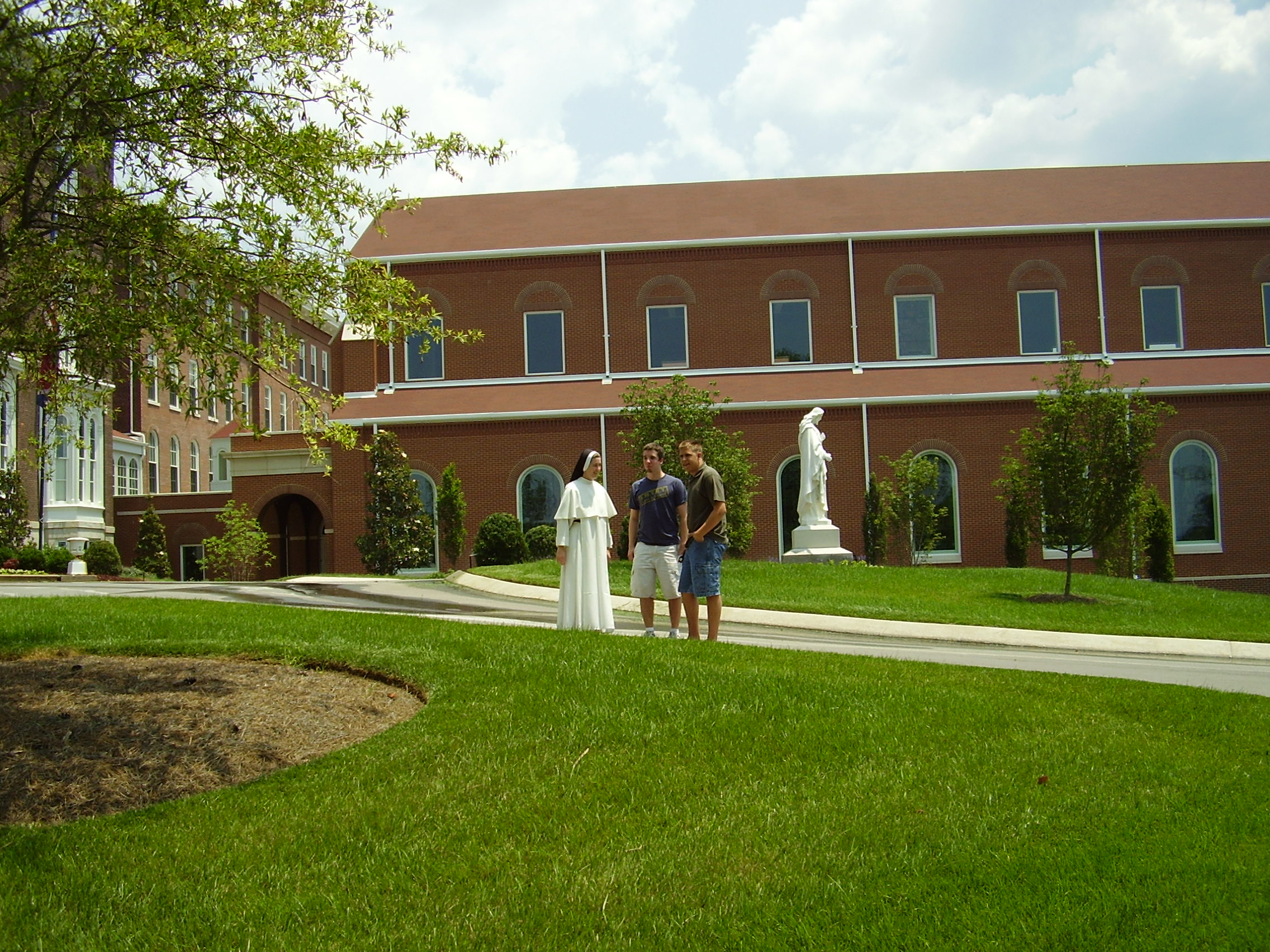 This picture of the Dominican Sisters of St. Cecilia motherhouse.